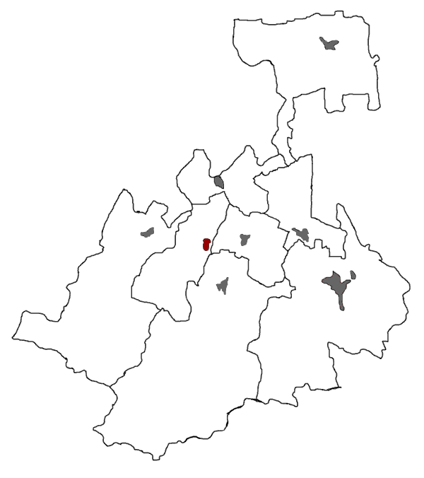 Location of Digora on the map of North Ossetia, Russia